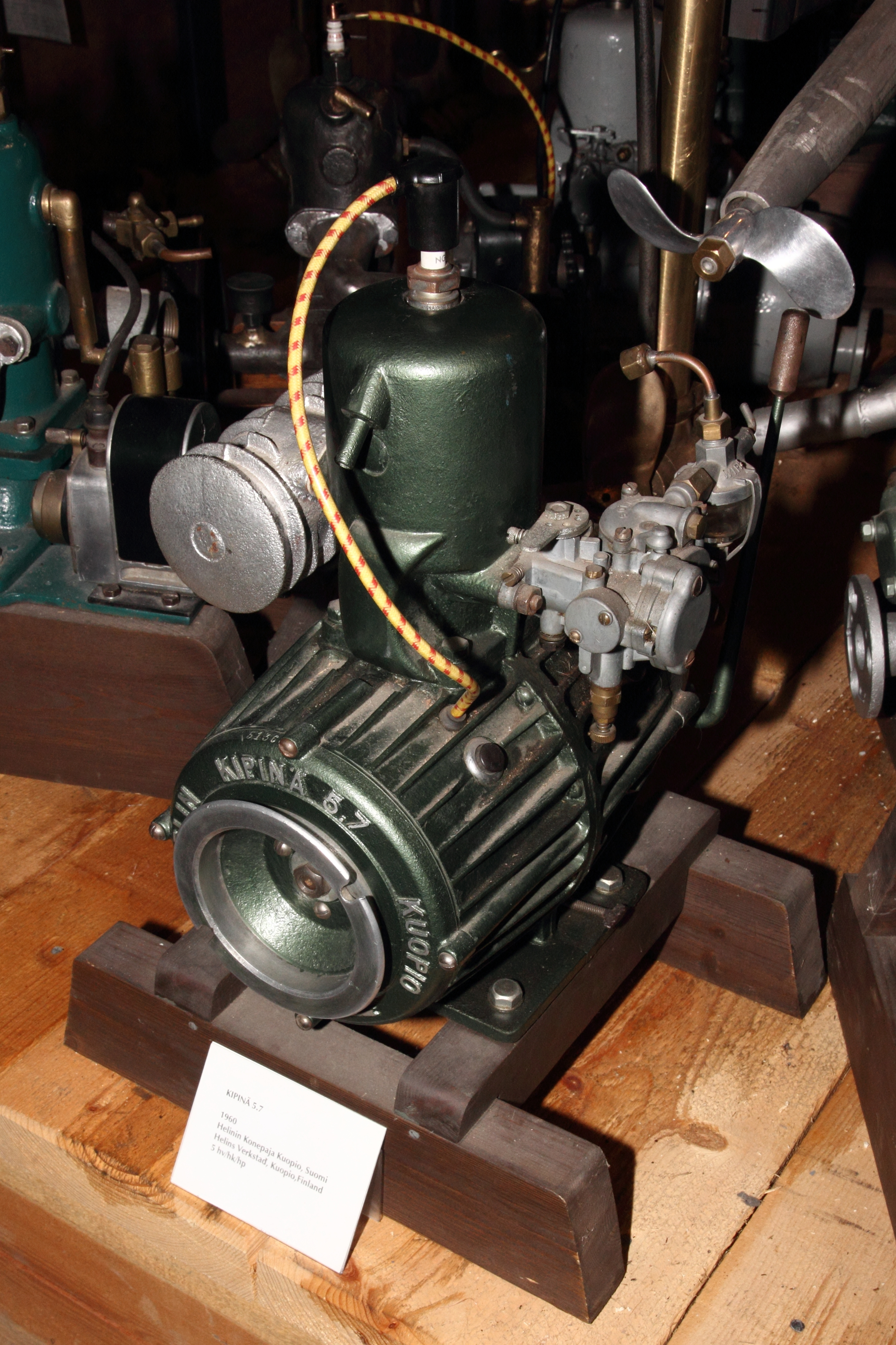 Finnish Kipinä 5.7 boat motor from 1960 built by Helinin Konepaja in Forum Marinum maritime museum.